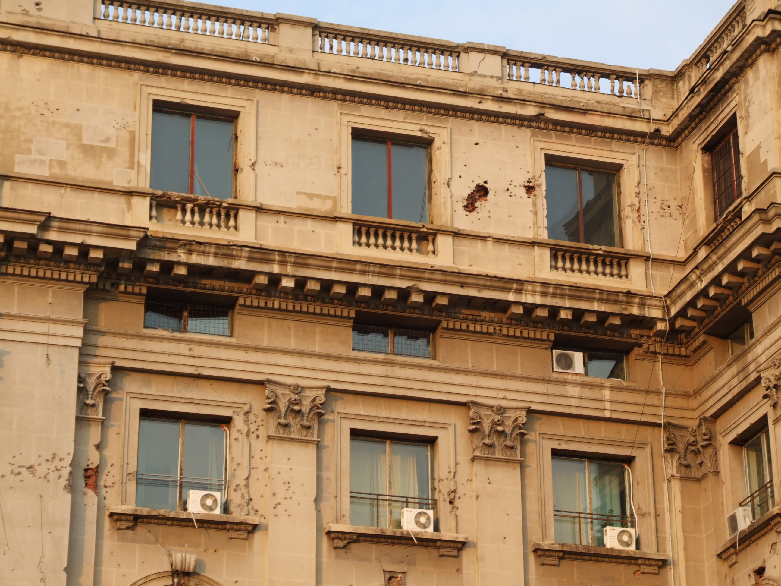 Royal Palace in Bucharest - bullet-scarred